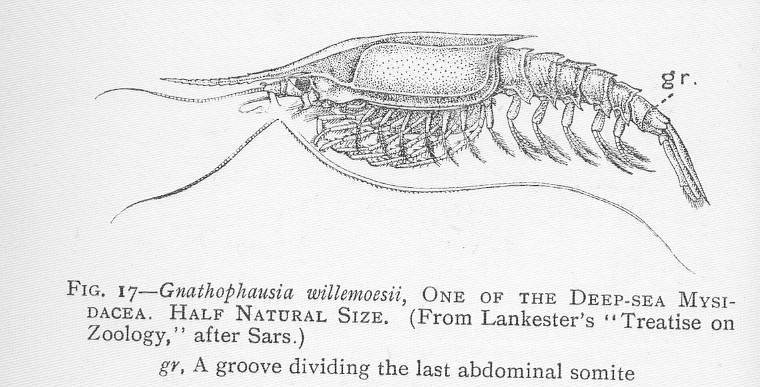 Gnathophausia millemoesii, one of the deep-sea mysidacea gr, a groove dividing the last abdominal somite Subject: Mysidacea Tag: Invertebrates